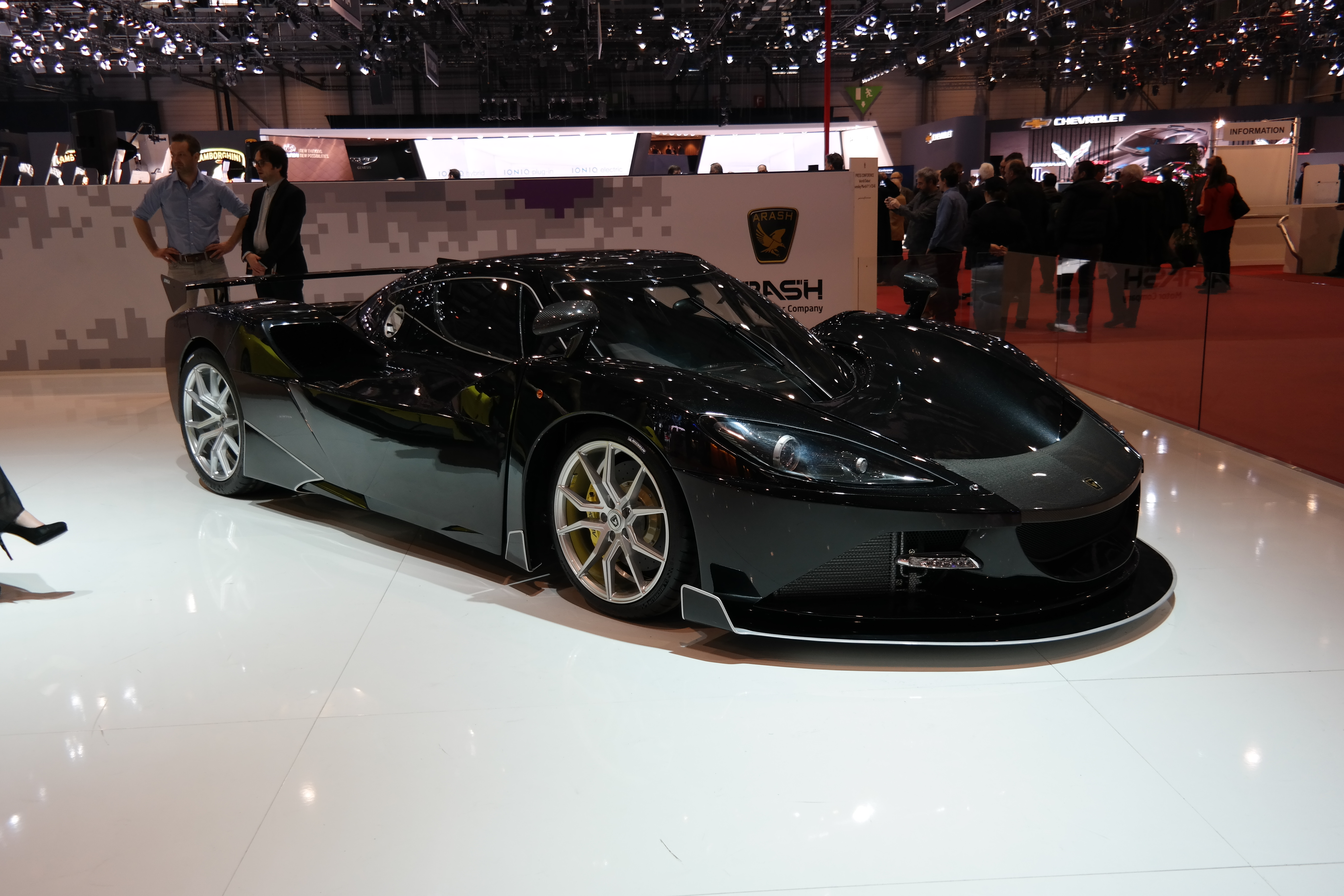 Geneva Motor Show 2016 (photo taken on the first press day)